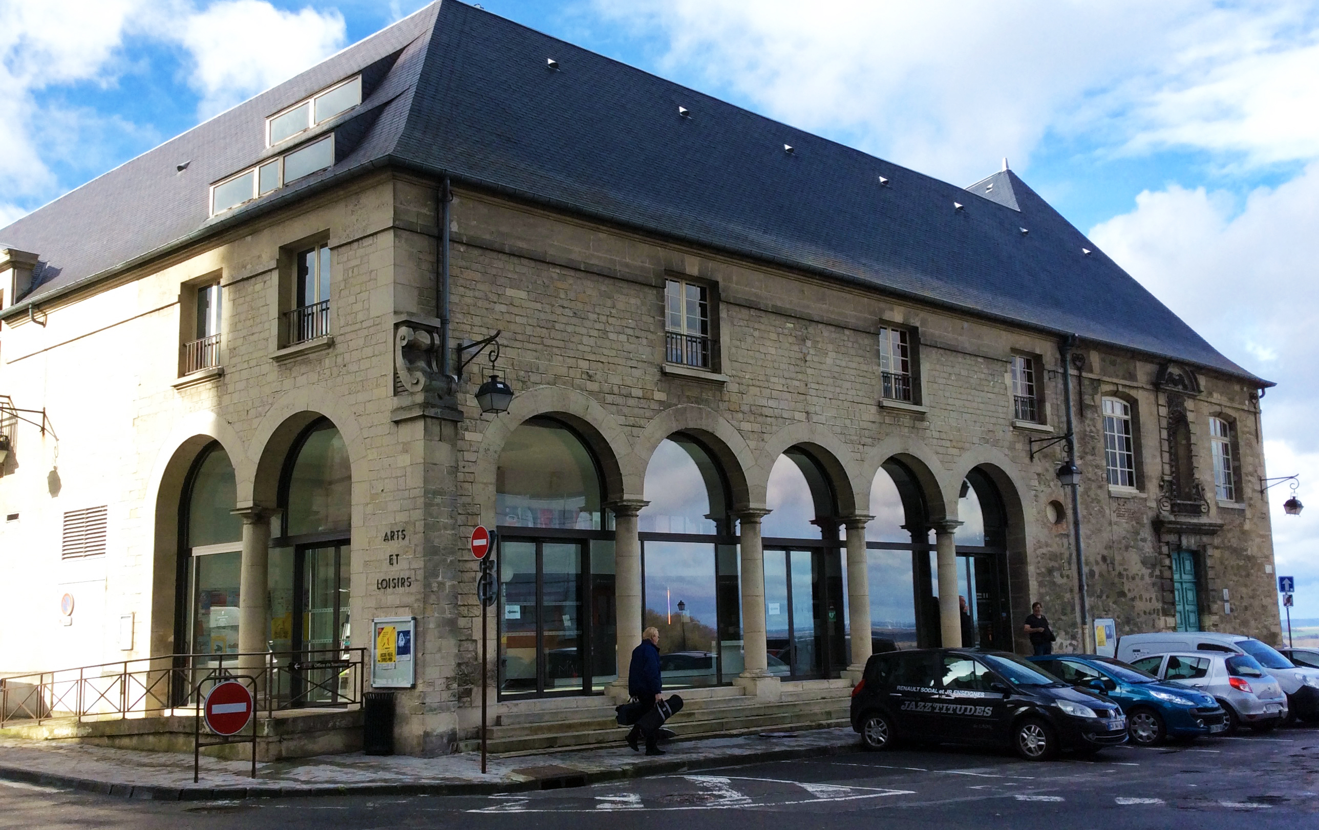 Maison des Arts et Loisirs, Laon, France, 2019